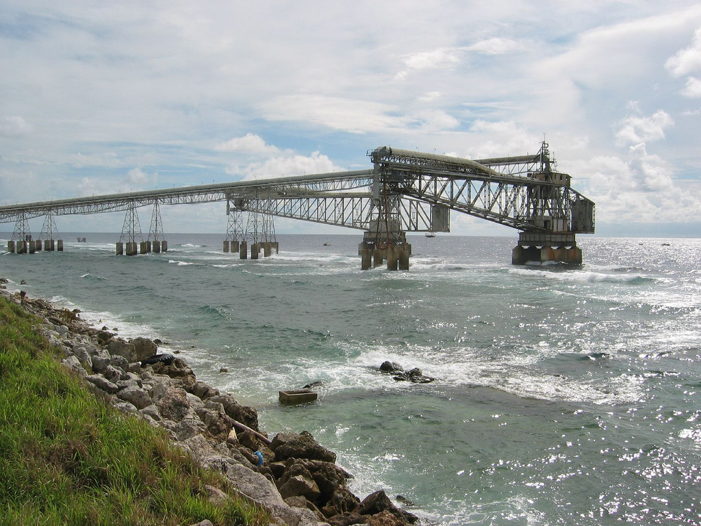 Phosphate loading station on Nauru